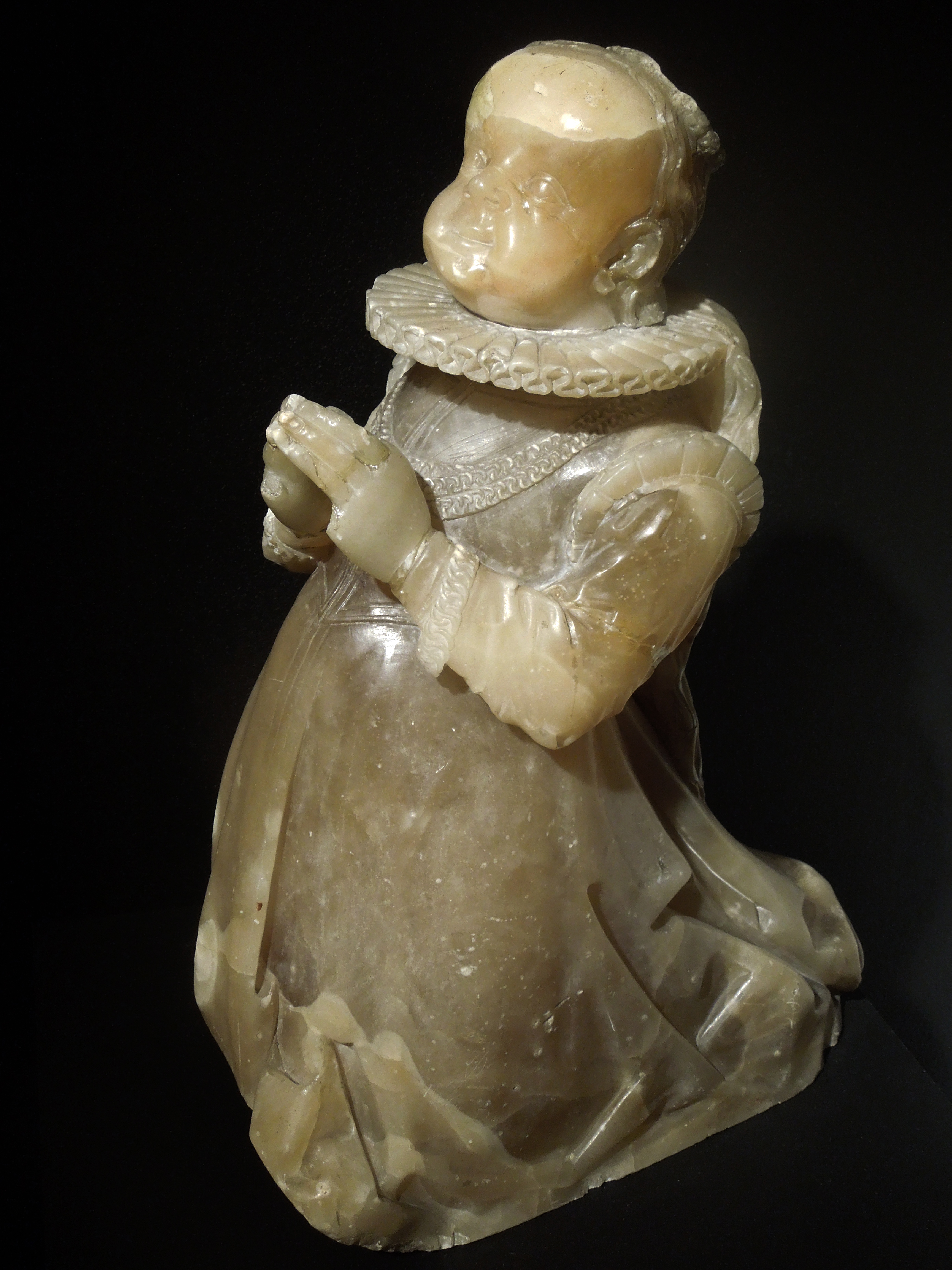 Gerhard Hendrik - Kneeling Girl; alabaster